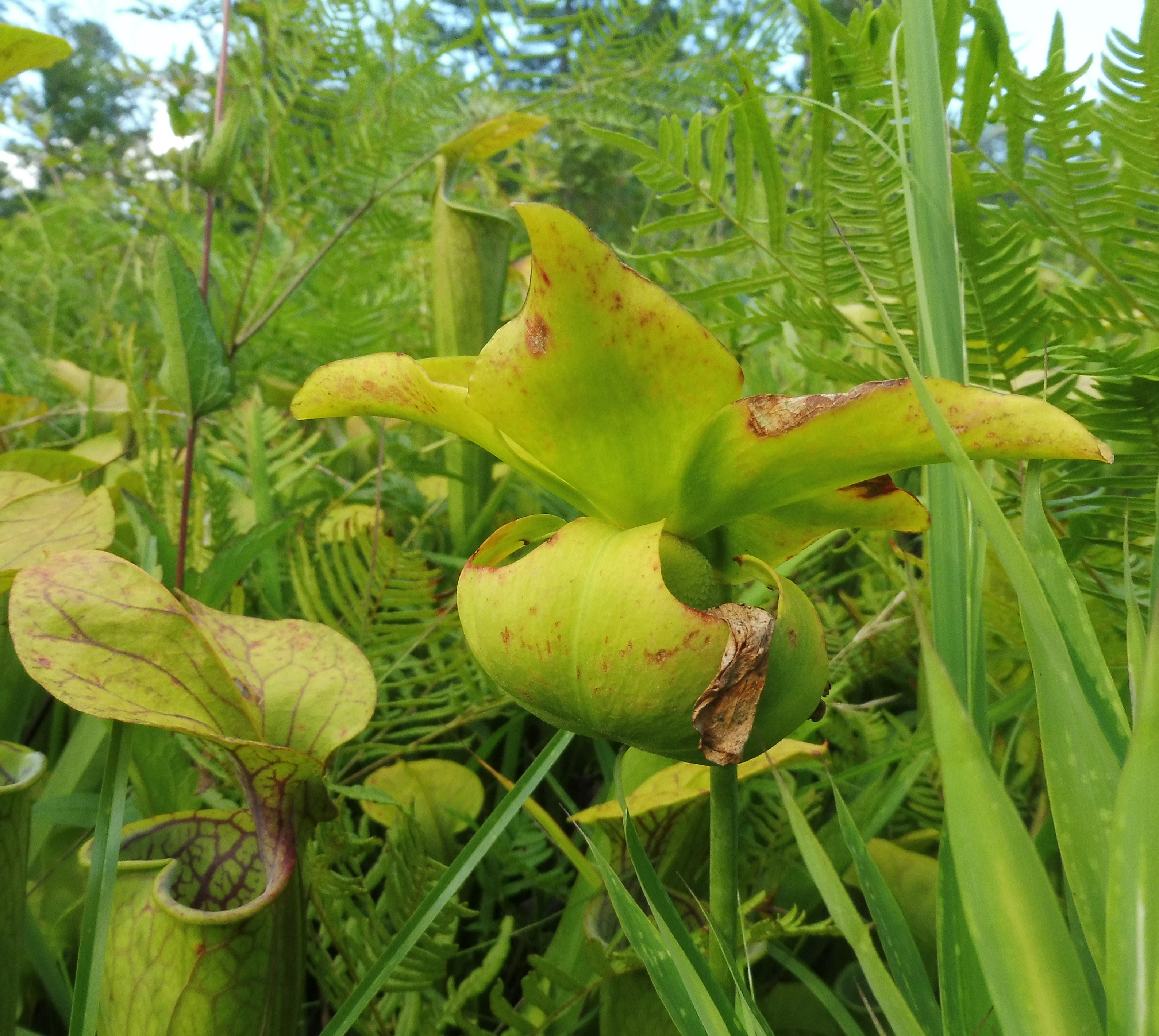 Sarracenia oreophila, open boggy swale near Little River in DeSoto State Park, DeKalb County, Alabama.